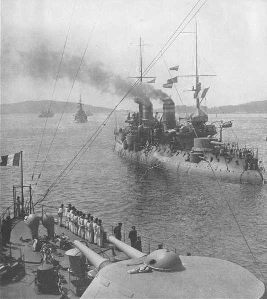 Bouvet in the Dardanelles